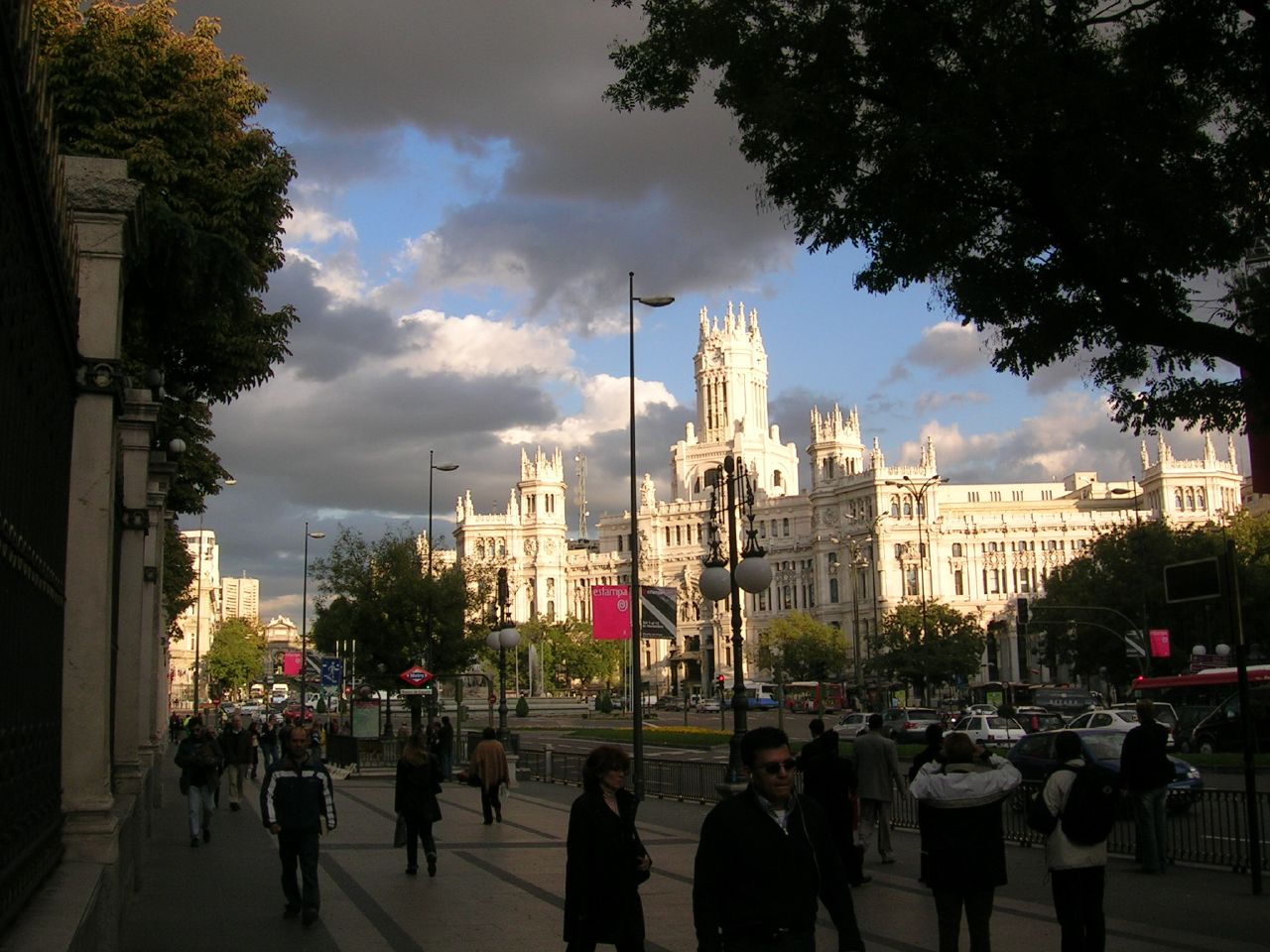 Partial view of Plaza de Cibeles (square) in Madrid (Spain) from Calle de Alcalá (street). In the background, Palacio de Comunicaciones (Madrid's city hall since 2007).